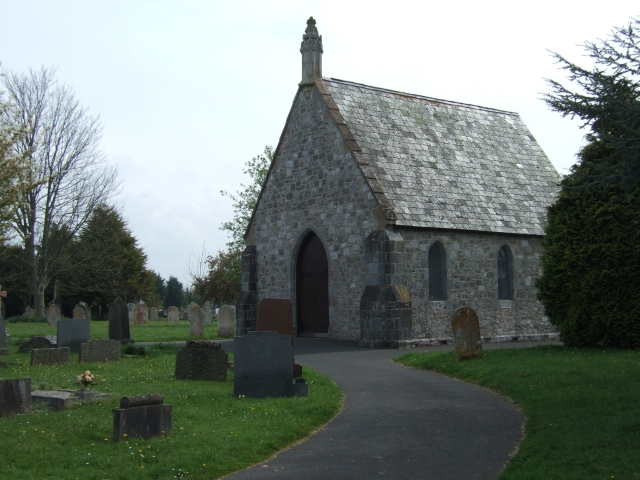 Topsham cemetery and cemetery chapel The small chapel serving the cemetery of this community.